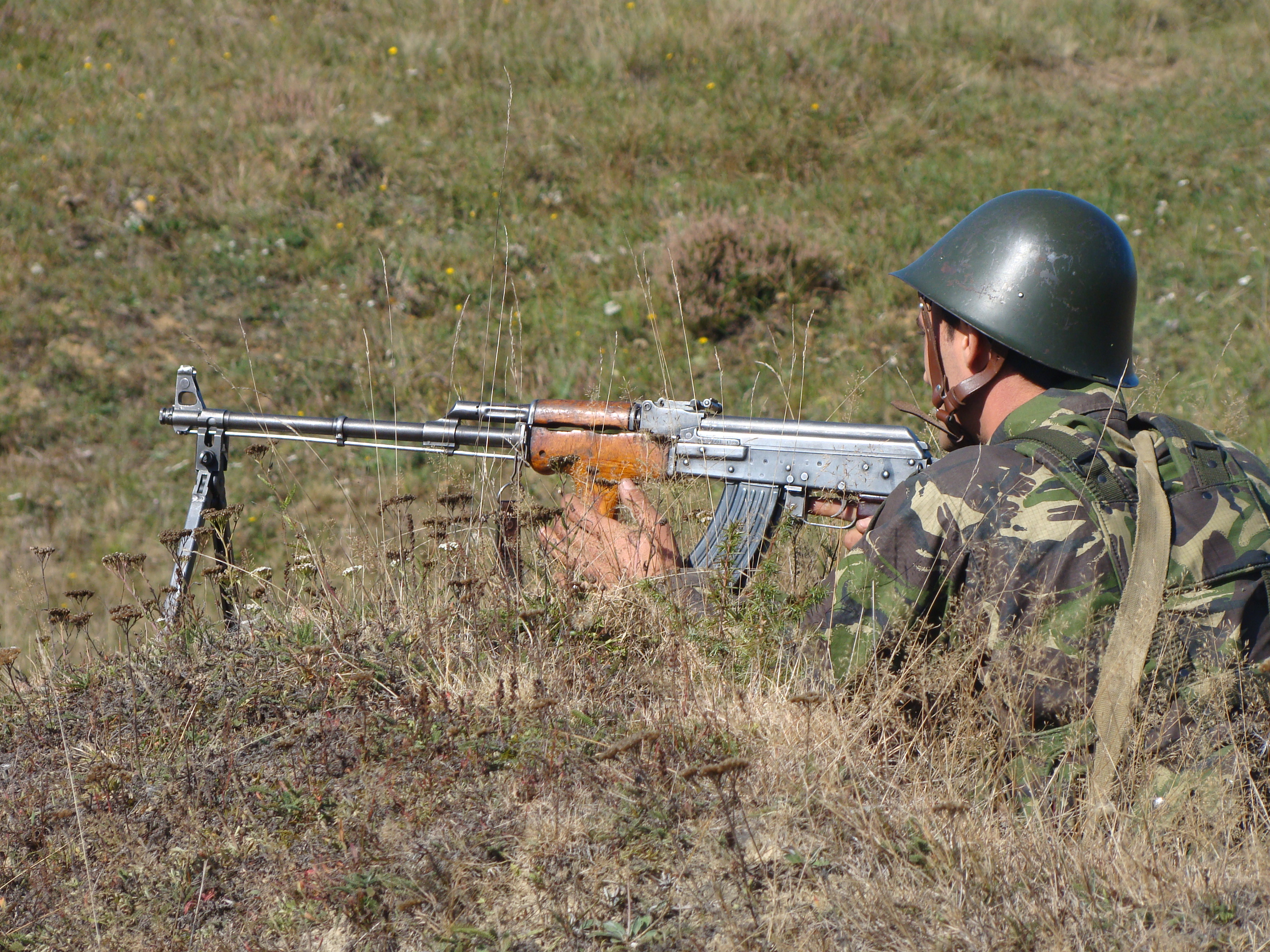 Sino-Romanian army mountain troops joint training "Friendship Action 2009".